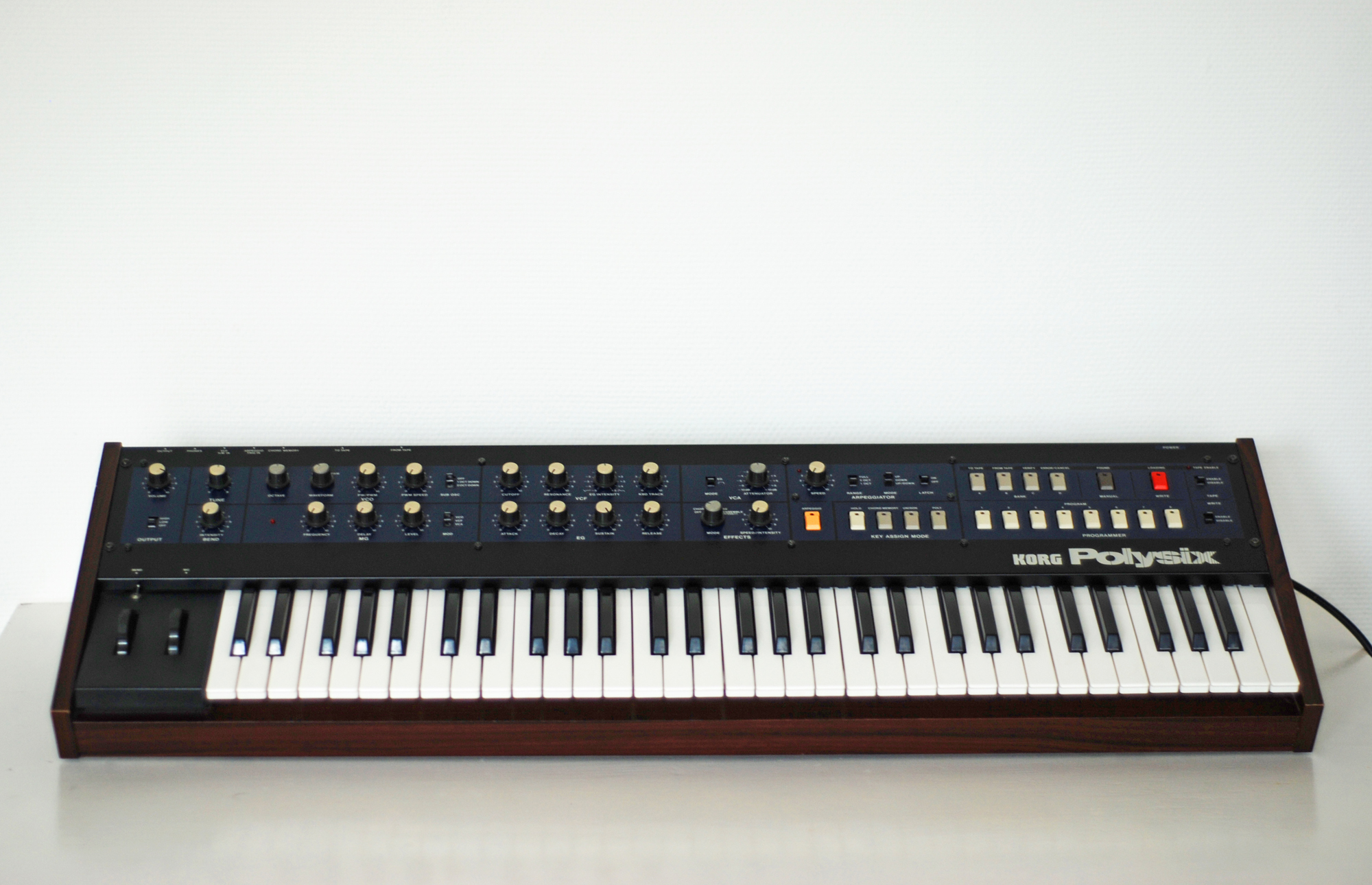 A picture of the KORG Polysix analog polyphonic synthesizer from 1981